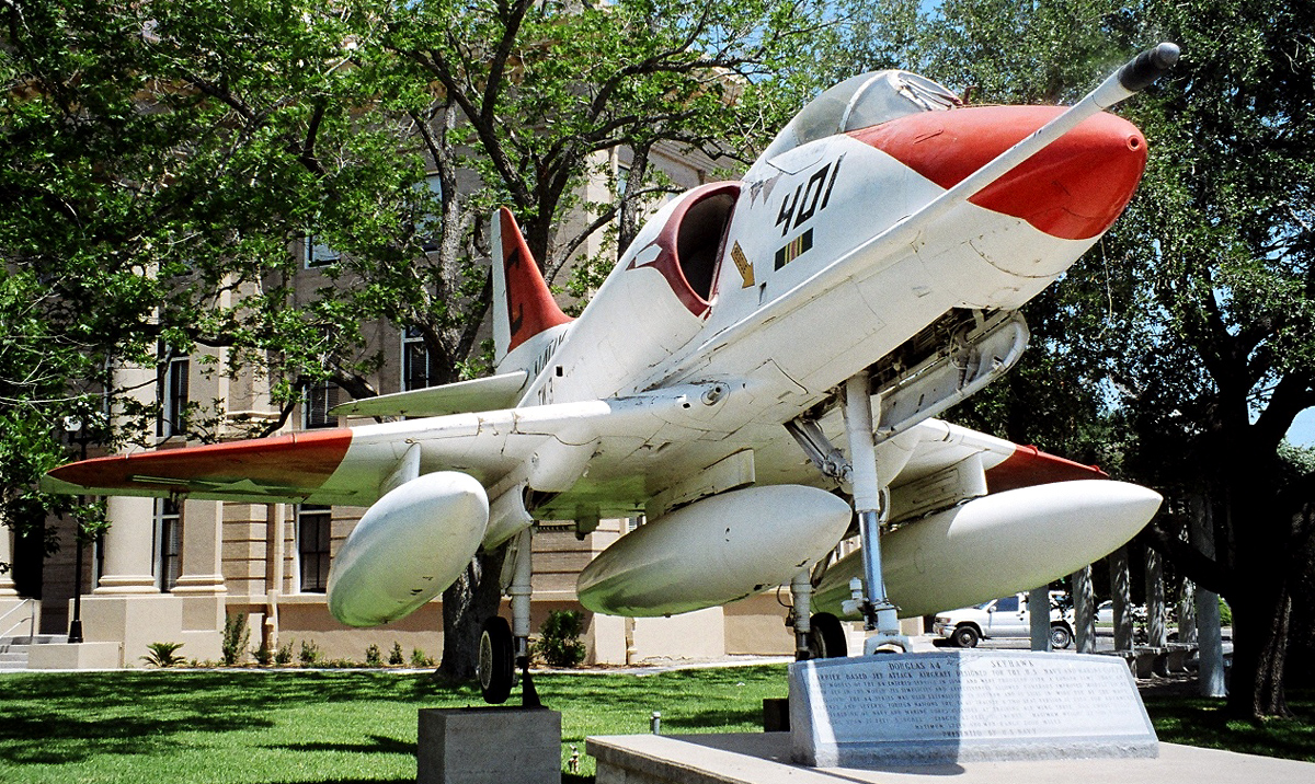 An A-4B Skyhawk on display in front of the Bee County Courthouse in Beeville, Texas, United States (aircraft BuNo. 142717).[1]